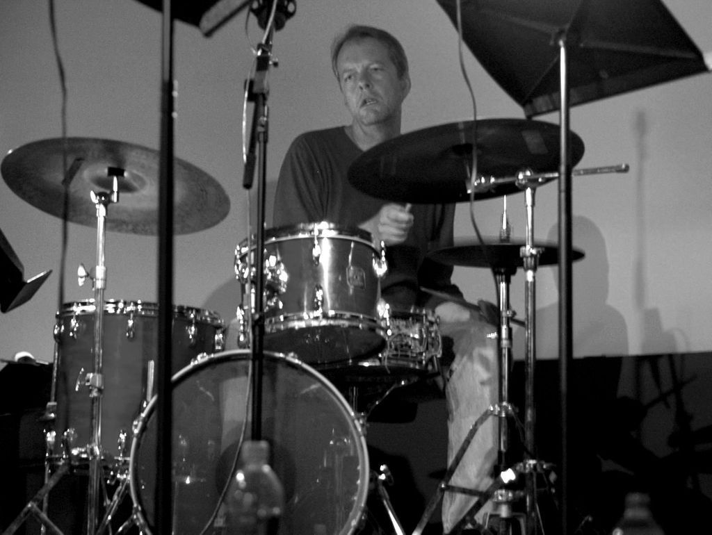 Drummer Tom Rainey perforrming live in concert with Faux Faux at The Cinema in West Philly on 30 July 2006.